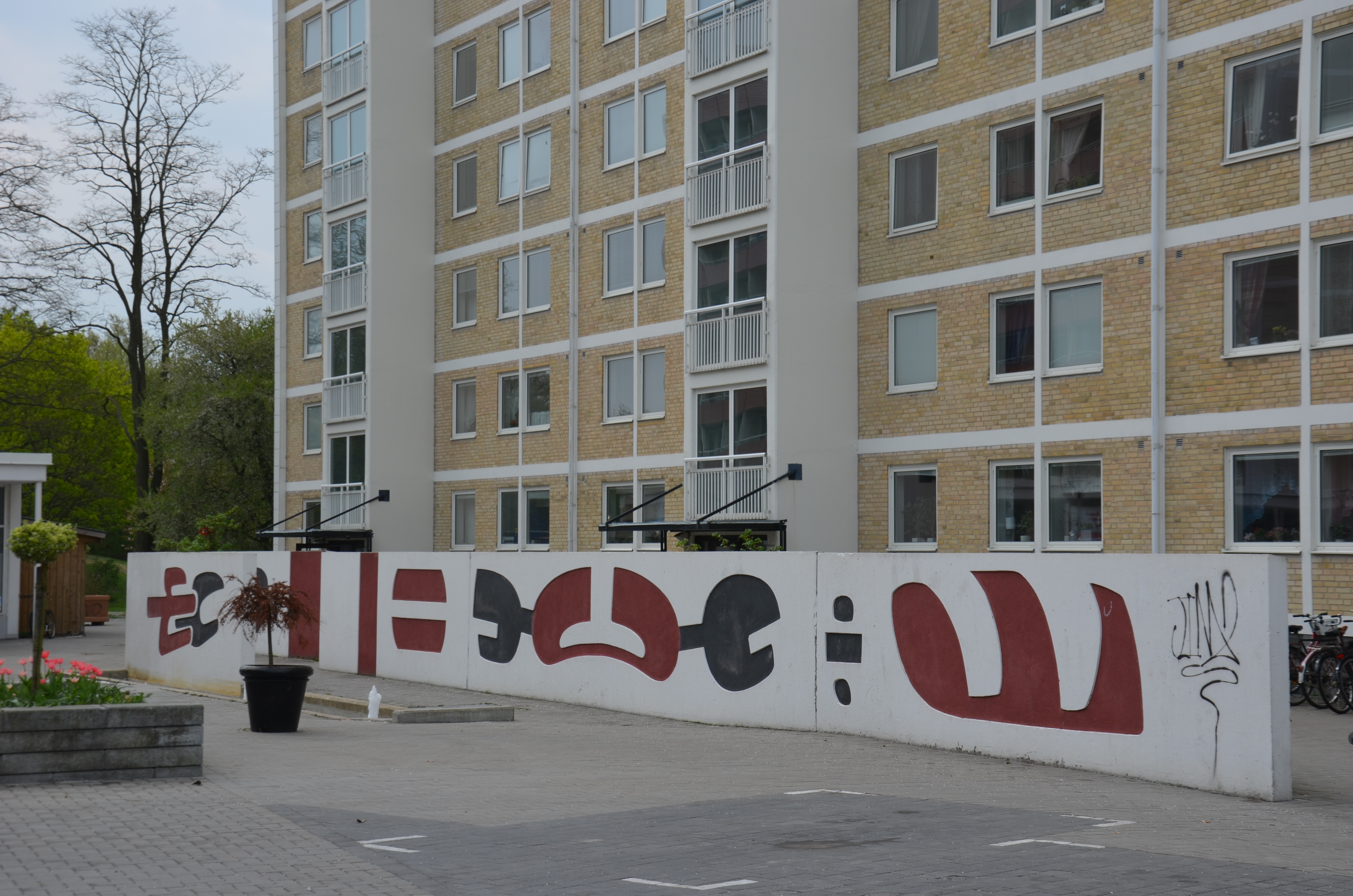 Carl-EinarAndersson's Polykrom relief, 1960, concrete, Karhögstorg , Järnåkra, Lund02